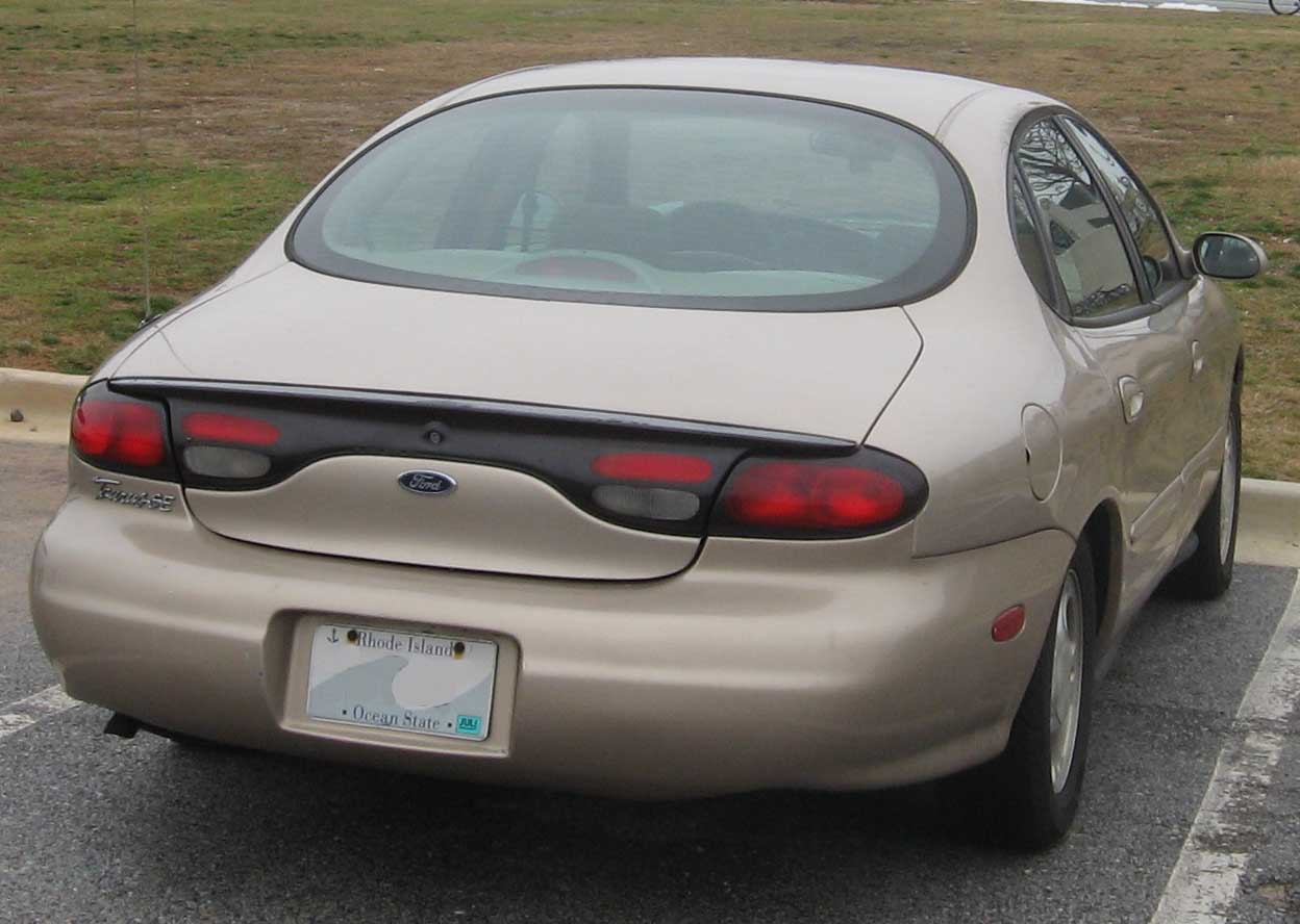 1996-1999 Ford Taurus photographed in College Park, Maryland, USA.